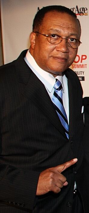 Benjamin Chavis Muhammad, an African American civil rights leader.